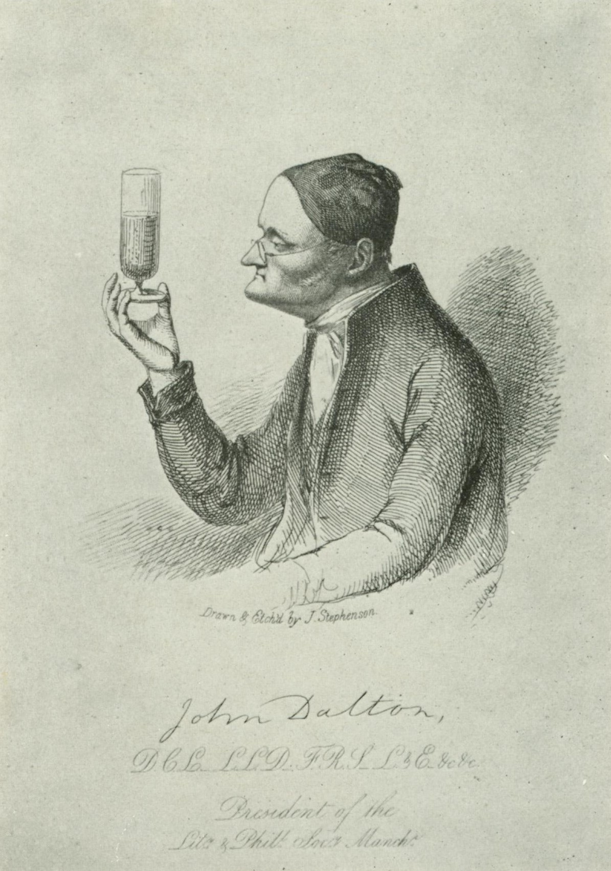 Engraving of John Dalton, the scientist (1766 – 1844)